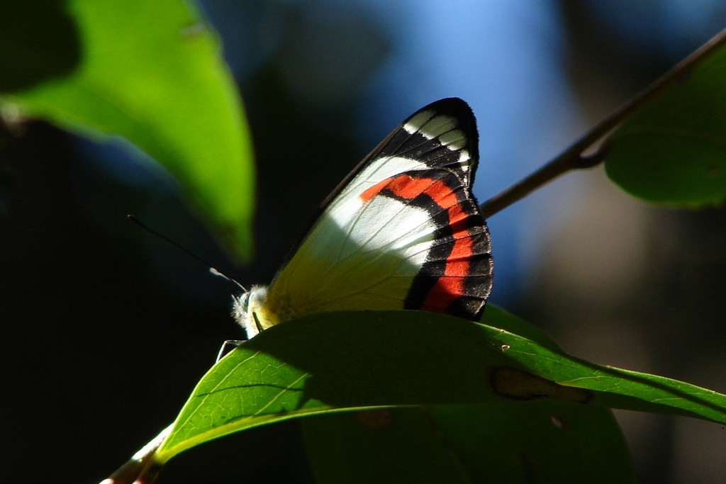 Butterfly in the rainforest of tropical Hinchinbrook island. (Australia) Red-banded Jezebel, or Union Jack Butterfly (Delias mysis) .au/discovernature/butterfliescommon/JCUDEV_00...